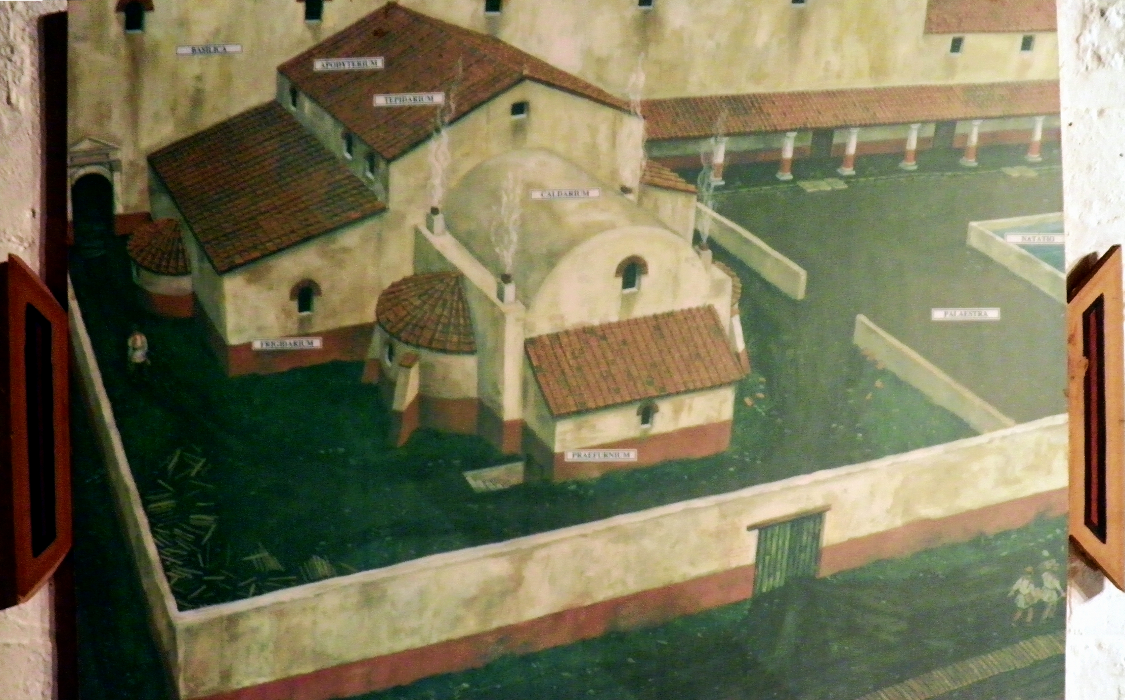 Reconstruction drawing of the Bath House showing how it might have appeared towards the end of the 4th century AD, Roman Bath Museum, Eboracum, York, England